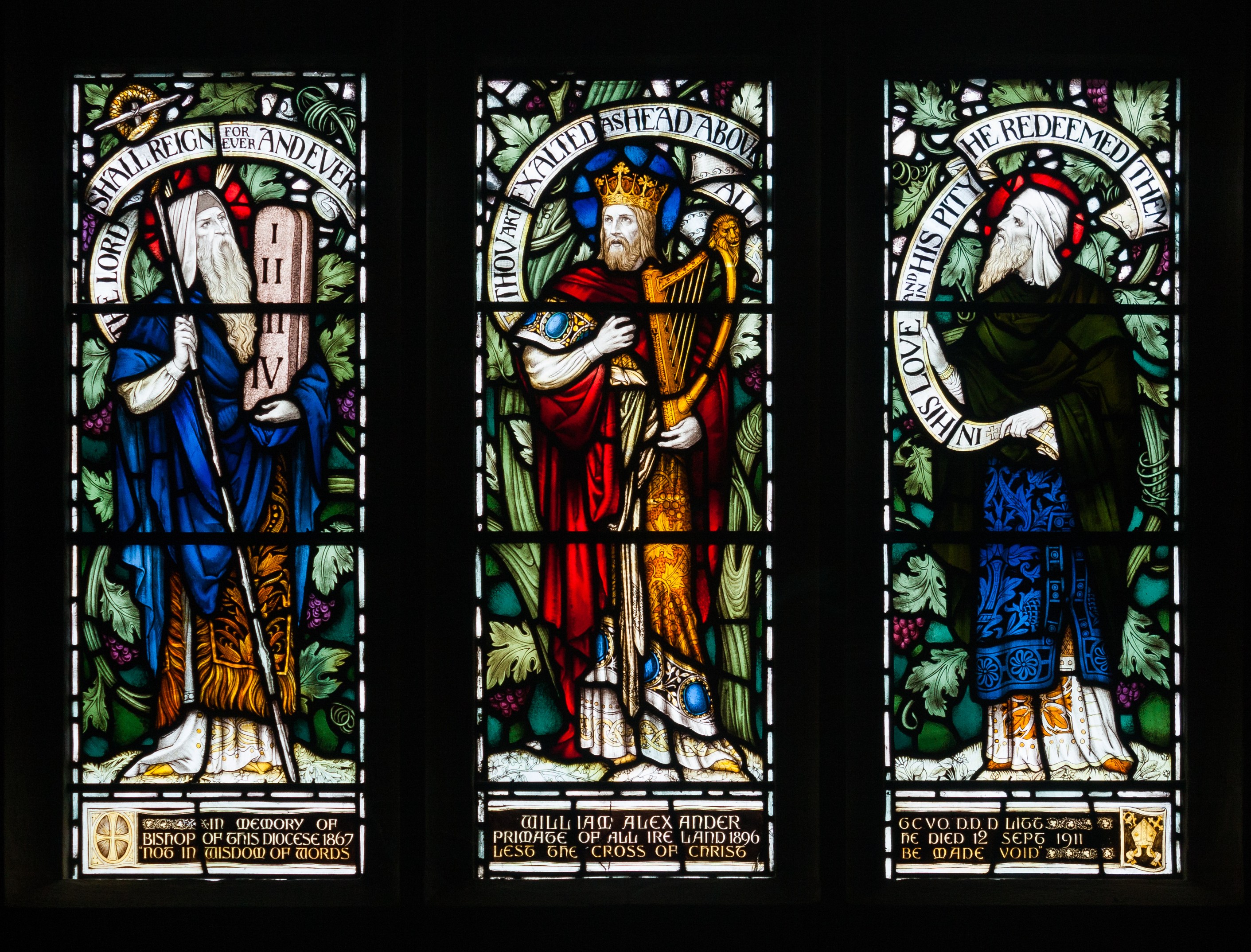 Lower lights of the east window of the side chapel (the eastern extension of the south aisle) in memory of Bishop William Alexander, who was translated to Armagh and died on 12 September 1911. The lower lights refer to Exodus 15:18 “The Lord shall reign for ever and ever” (left light with Moses), 1 Chronicles 29:11 (centre light with King David), and Isaiah 63:9 “in his love and in his pity he redeemed them” (right light with Isaiah). These three lights reflect the Archbishop's qualities as a leader, poet, and preacher. The window was created by Powell & Sons and unveiled on 20 March 1913. (Irish Times, 22 March 1913, p. 10; J. Godfrey F. Day and Henry E. Patton: The Cathedrals of the Church of Ireland, p. 36–37.